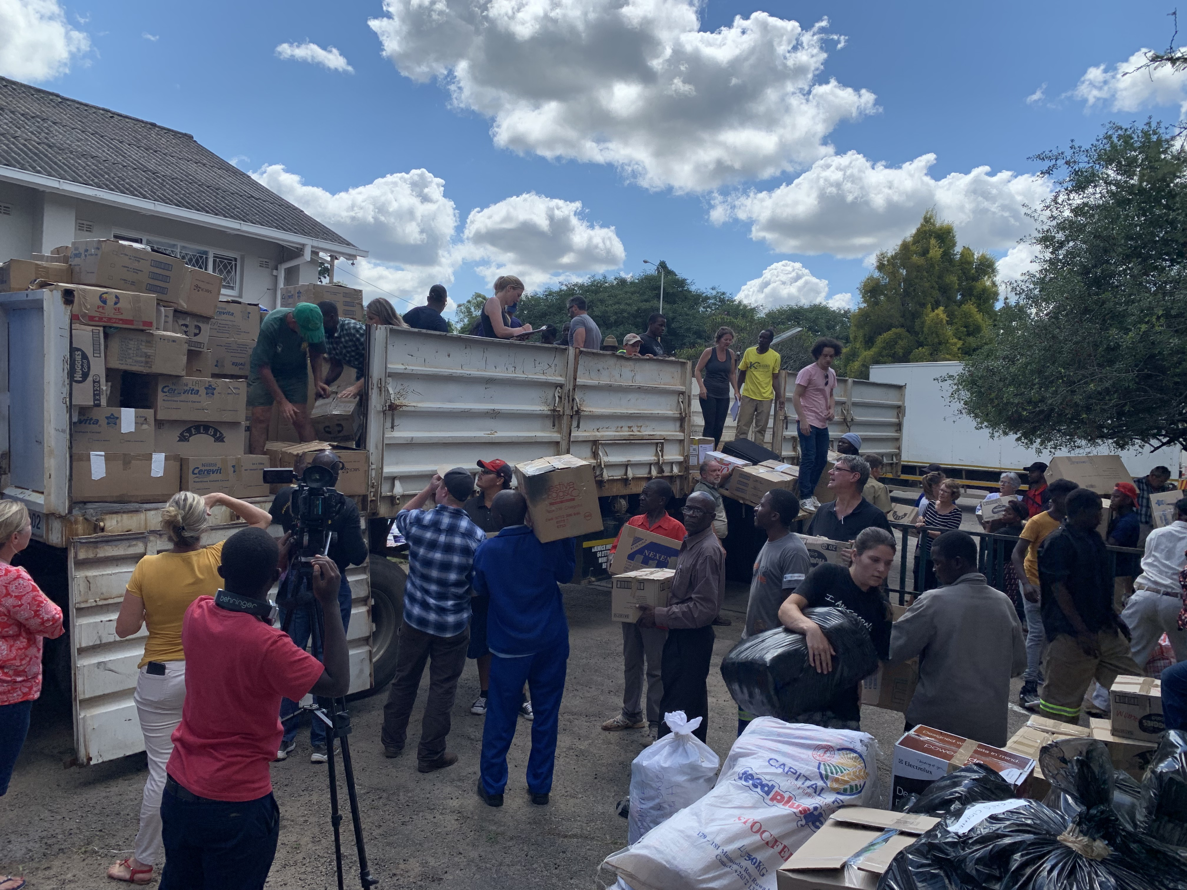 Volunteers bring donated goods to be transported to Chimanimani and other affected areas by Cyclone Idai, March 19, 2019.